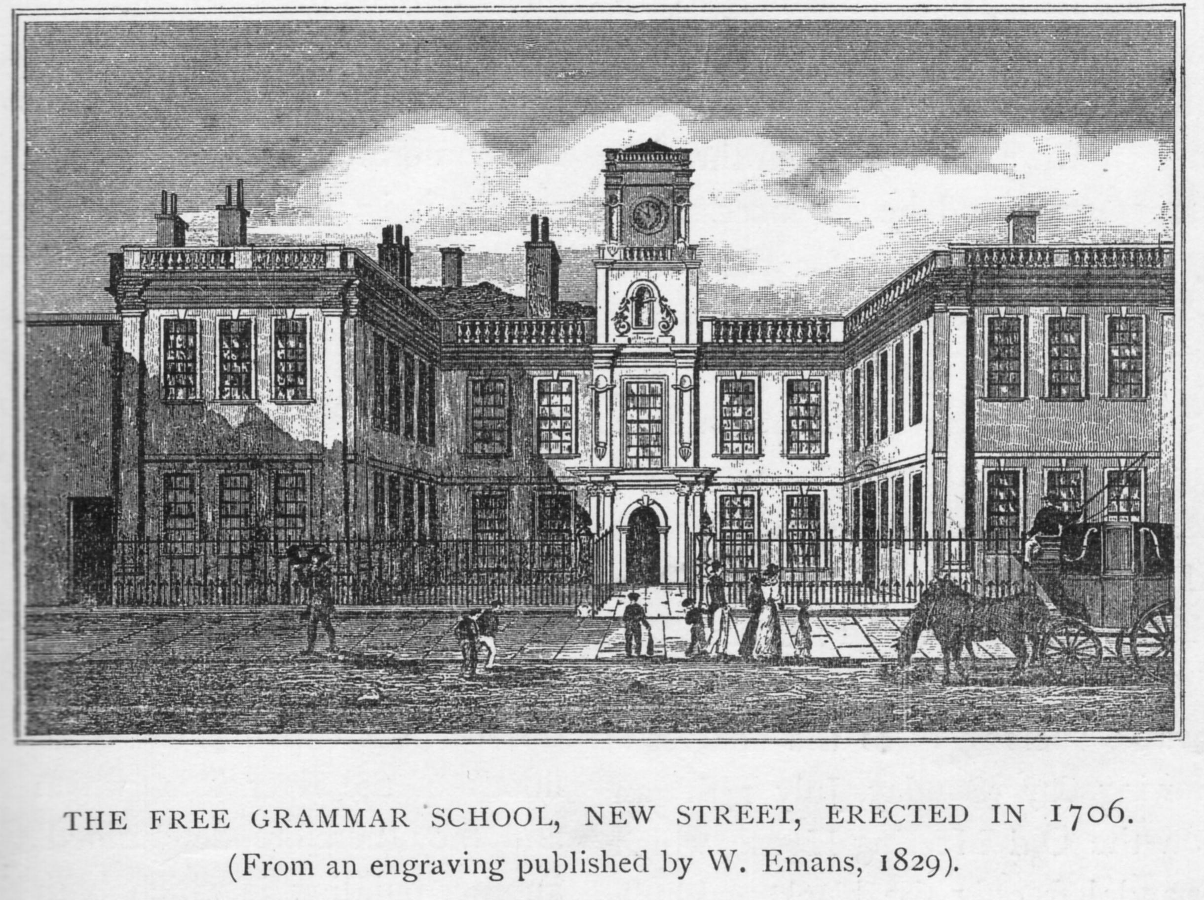 The Free Grammar School, now known as King Edward's School, New Street, Birmingham, England. Demolished and replaced by buildings by architect Charles Barry.